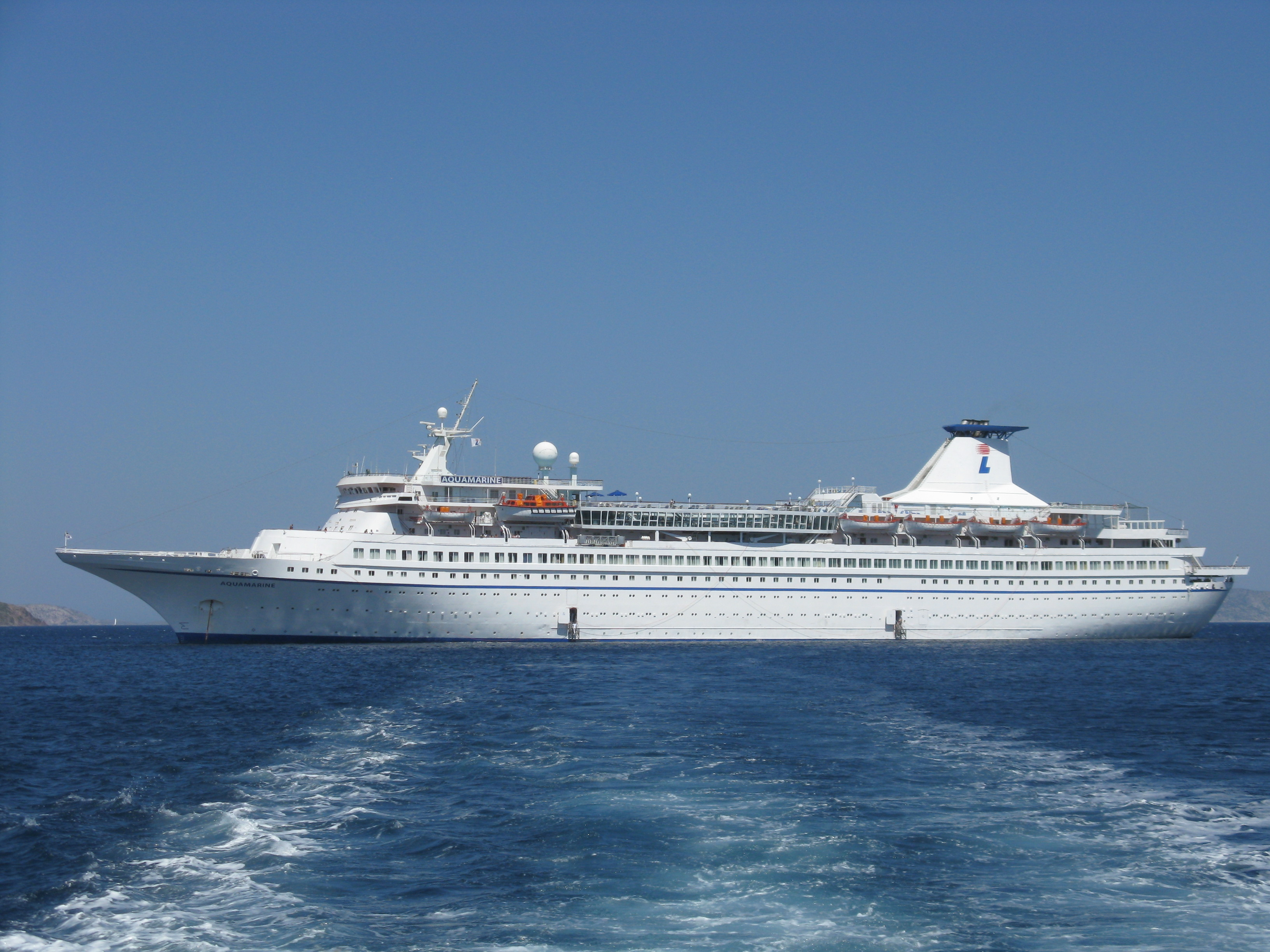 MV Aquamarine anchored off Patmos Greece. July 1, 2008 @ 3:30pm local time. Unaltered original. Information about Aquamarine may be found at IMO 7027411.A ship can change name and flag state through time, but the IMO number remains the same through the hull's entire lifetime. As a result, it can be useful to identify a ship by using the IMO number.